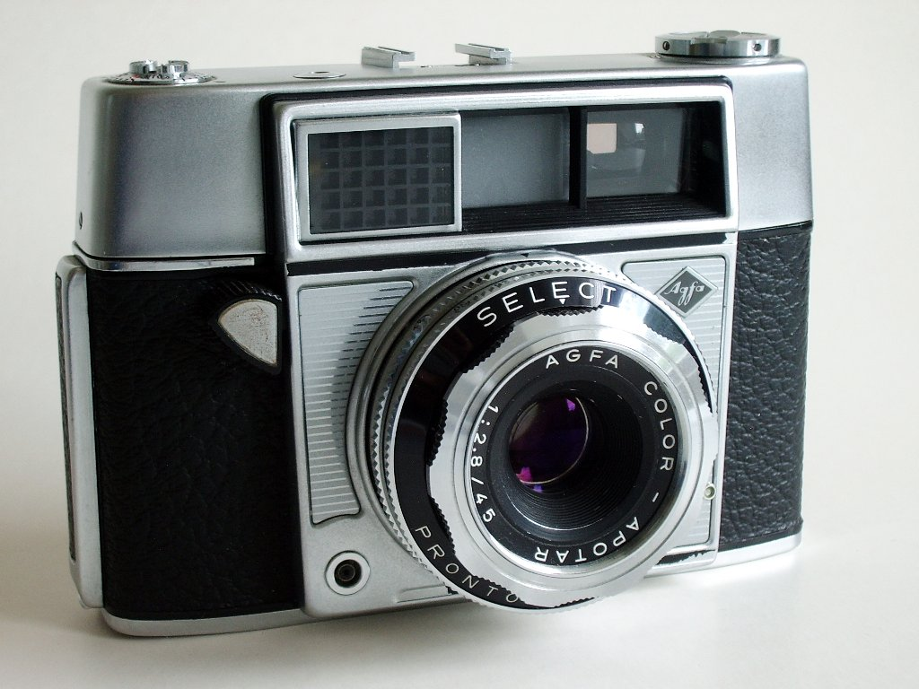 Agfa Selecta - Viewfinder camera for 135 film. Automatic and manual exposure control with shutter priority. Lens: Agfa Color Apotar 1:2,8/45mm. Aperture range = f2.8 to f22. Shutter range = 1/30sec. to 1/500sec. Automatic exposure control works without batteries with self-powered selenium-cell.